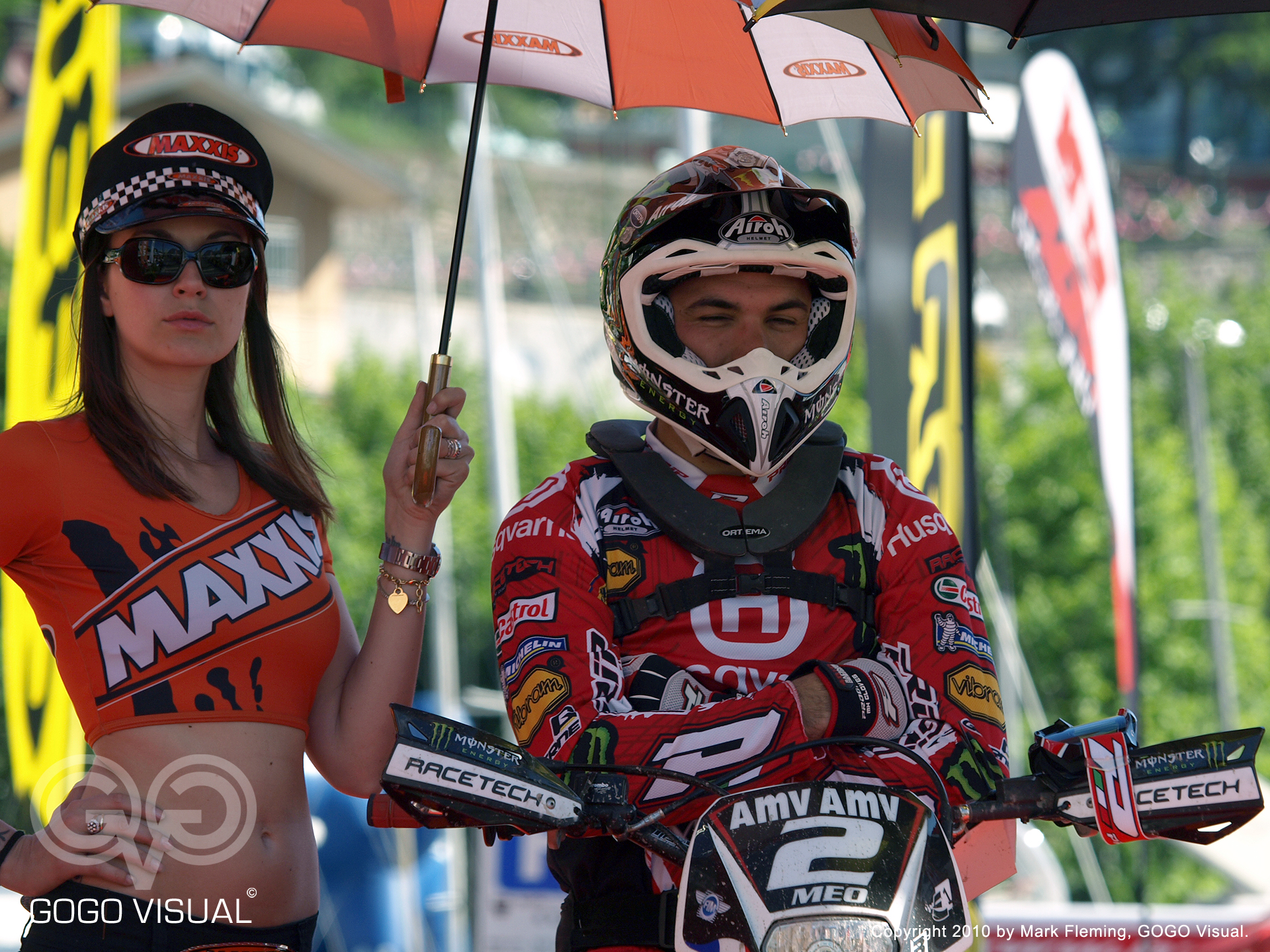 E1 - Antoine Meo (France, Husqvarna) at the 2010 MAXXIS FIM Enduro World Championship GP of Italy, in Lovere (41st Valli Bergamasche)